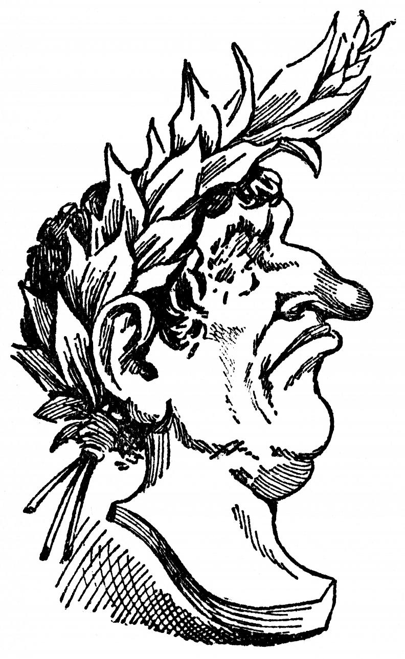 Bust of Cæsar.